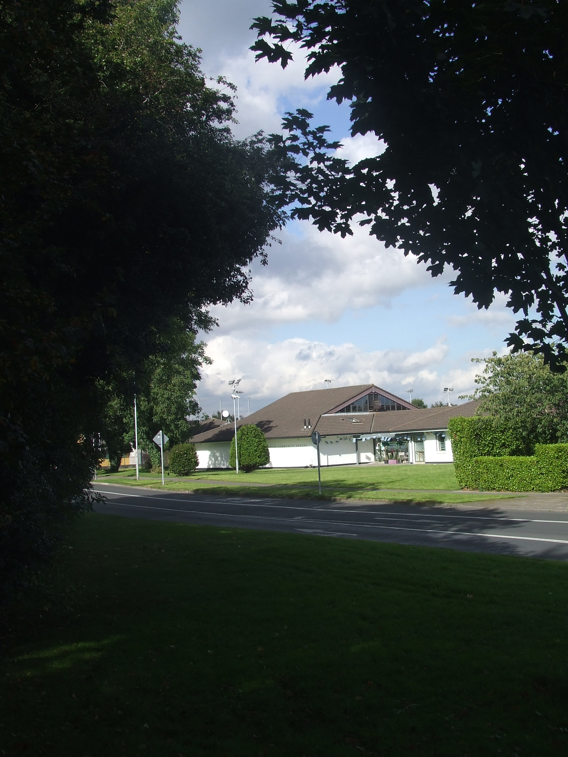 Castleknock Community Centre in the Laurel Lodge district near the cluster of community buildings associated with the parish of "St Thomas, the Apostle". The trees on the left are the vestigial remainder of the ditch dividing Blanchardstown townland (on the right) from Carpenterstown townland (on the left).